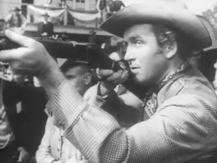 Cropped screenshot of James Stewart from the trailer for the film Winchester '73